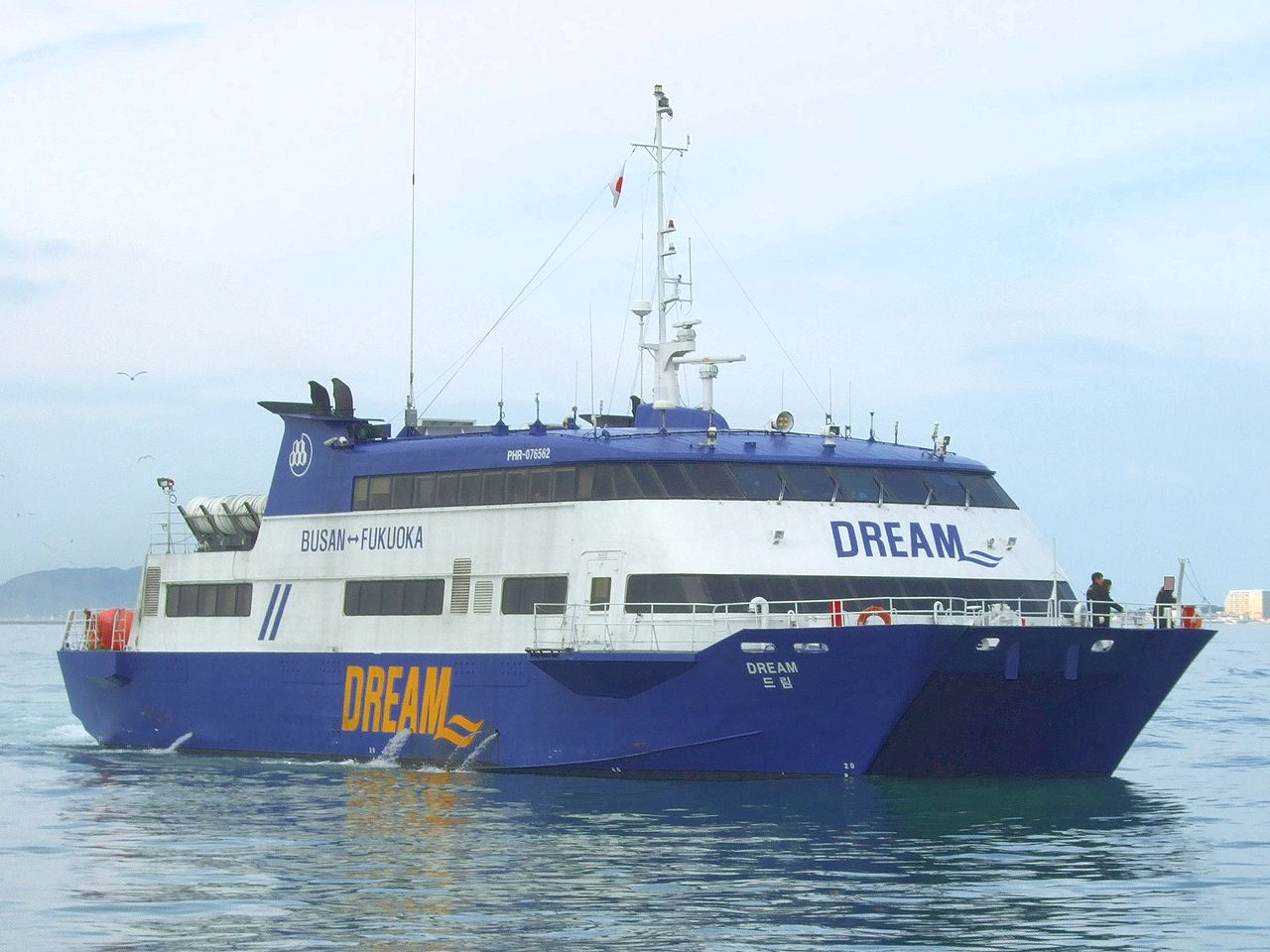 “Dream”, the ship of Daea Express Shipping, South Korea. / Location:Hakata Port